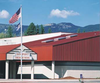 Exterior of Sandpoint High School